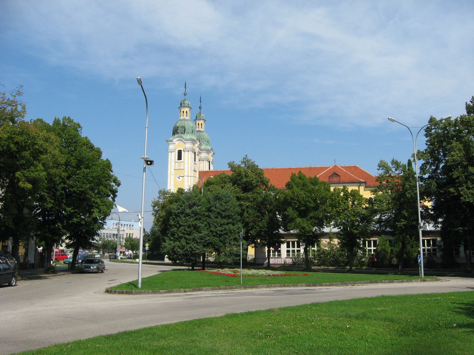 Centre of Slovakian town Šurany with the church of St. Stephen protomartyr.